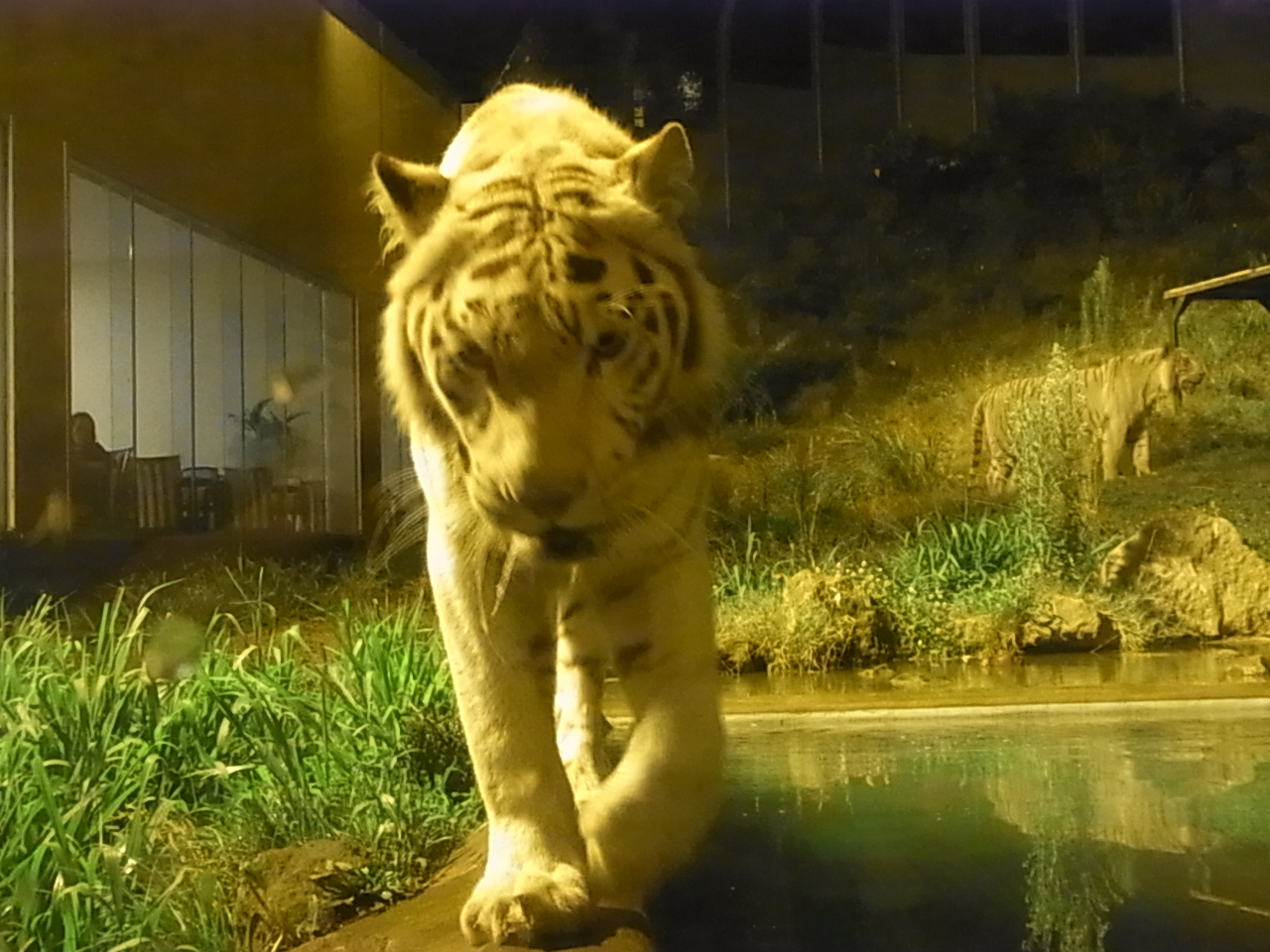 White tiger, night-safari, in Izu Animal Kingdom, Higashiizu-town, Shizuoka-pref, Japan